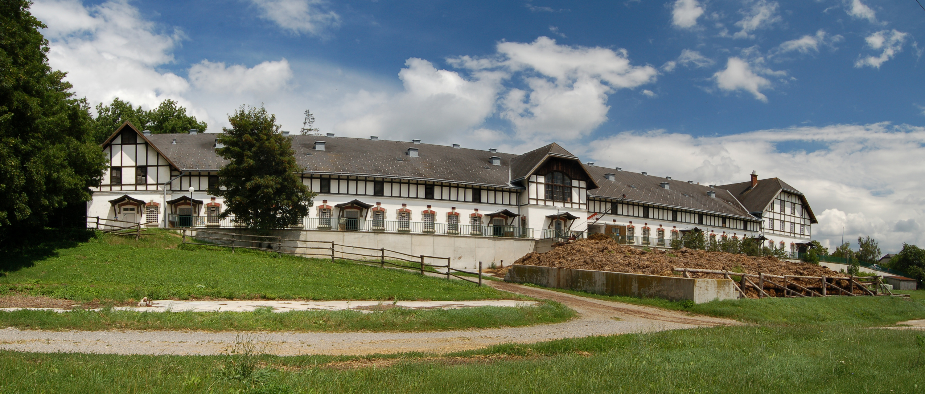 Kremesberg, an agricultural teaching and research facility operated by the University of Veterinary Medicine Vienna. Located in the municipality Pottenstein above Berndorf, Lower Austria.